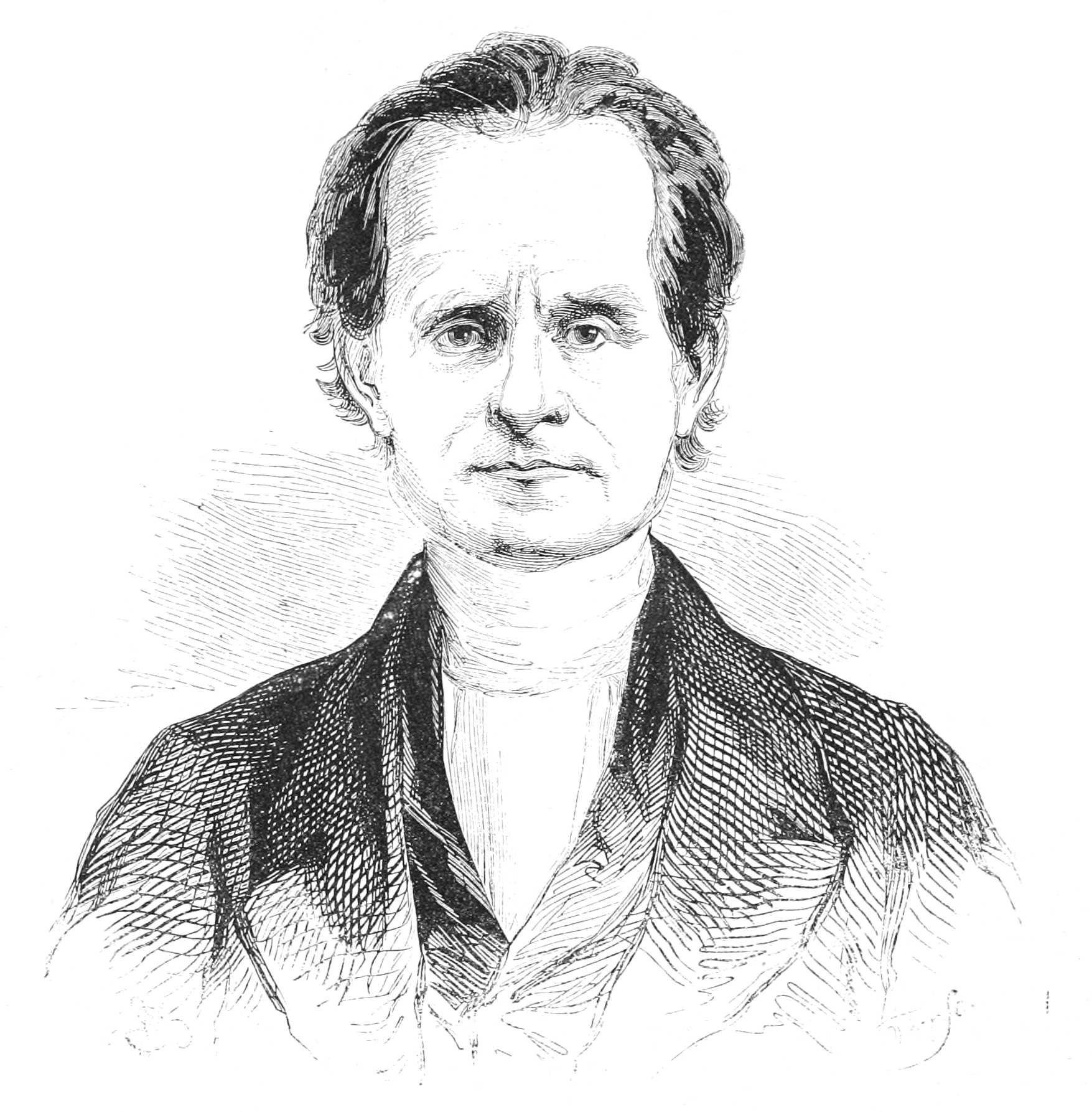 Engraved portrait of Leonard Bacon, D. D.